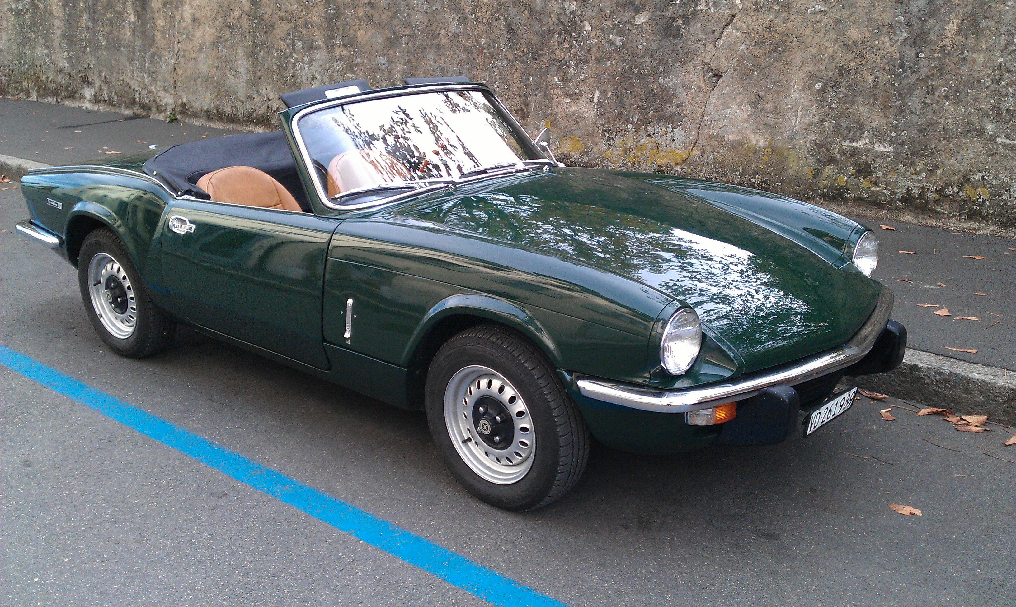 Triumph Spitfire MkIV